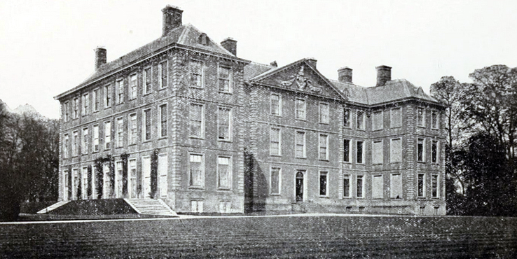 Wrottesley Hall, Staffordshire, England, built in 1696 by Sir Walter Wrottesley, 3rd Baronet, and burnt down in 1897.